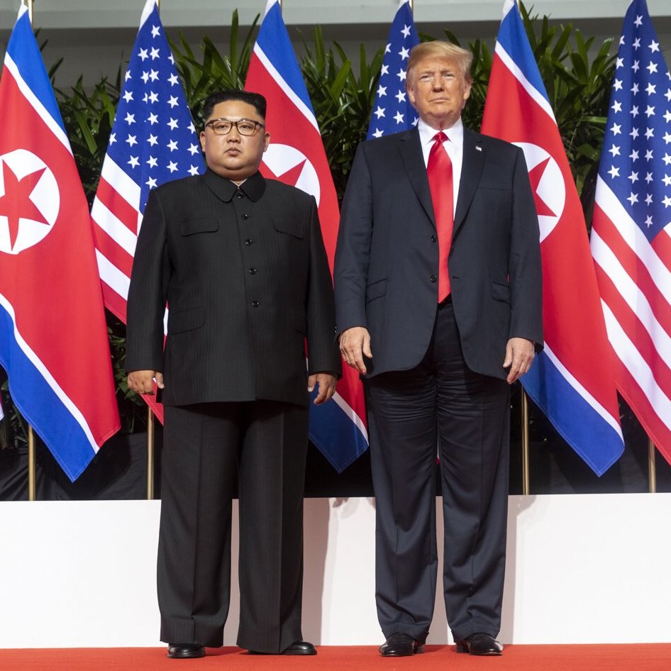 Trump and Kim standing next to each other on the red carpet during the Singapore summit